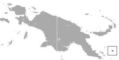 Woodlark Cuscus (Phalanger lullulae) range